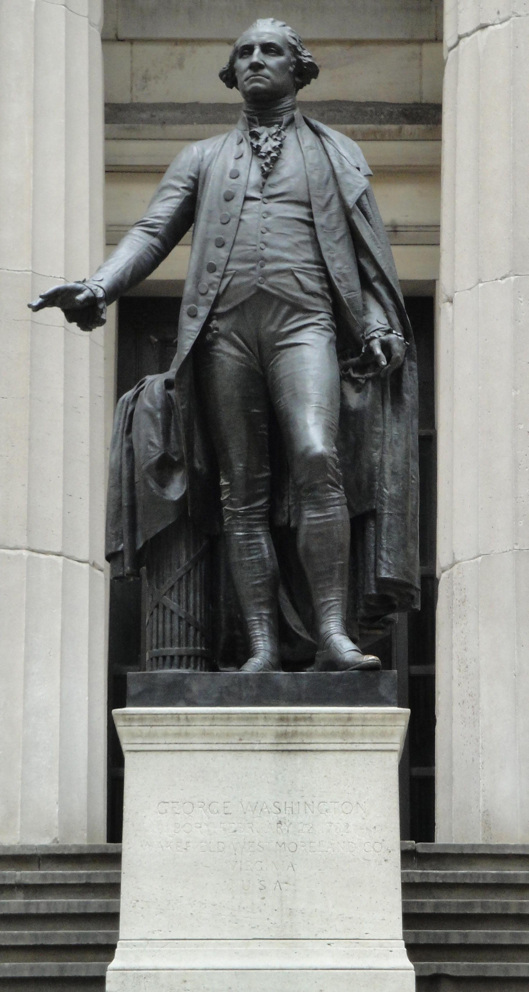 The statue of George Washington at Federal Hall in Manhattan, New York City. It stands on the spot where Washington was sworn in as the first President of the United States.